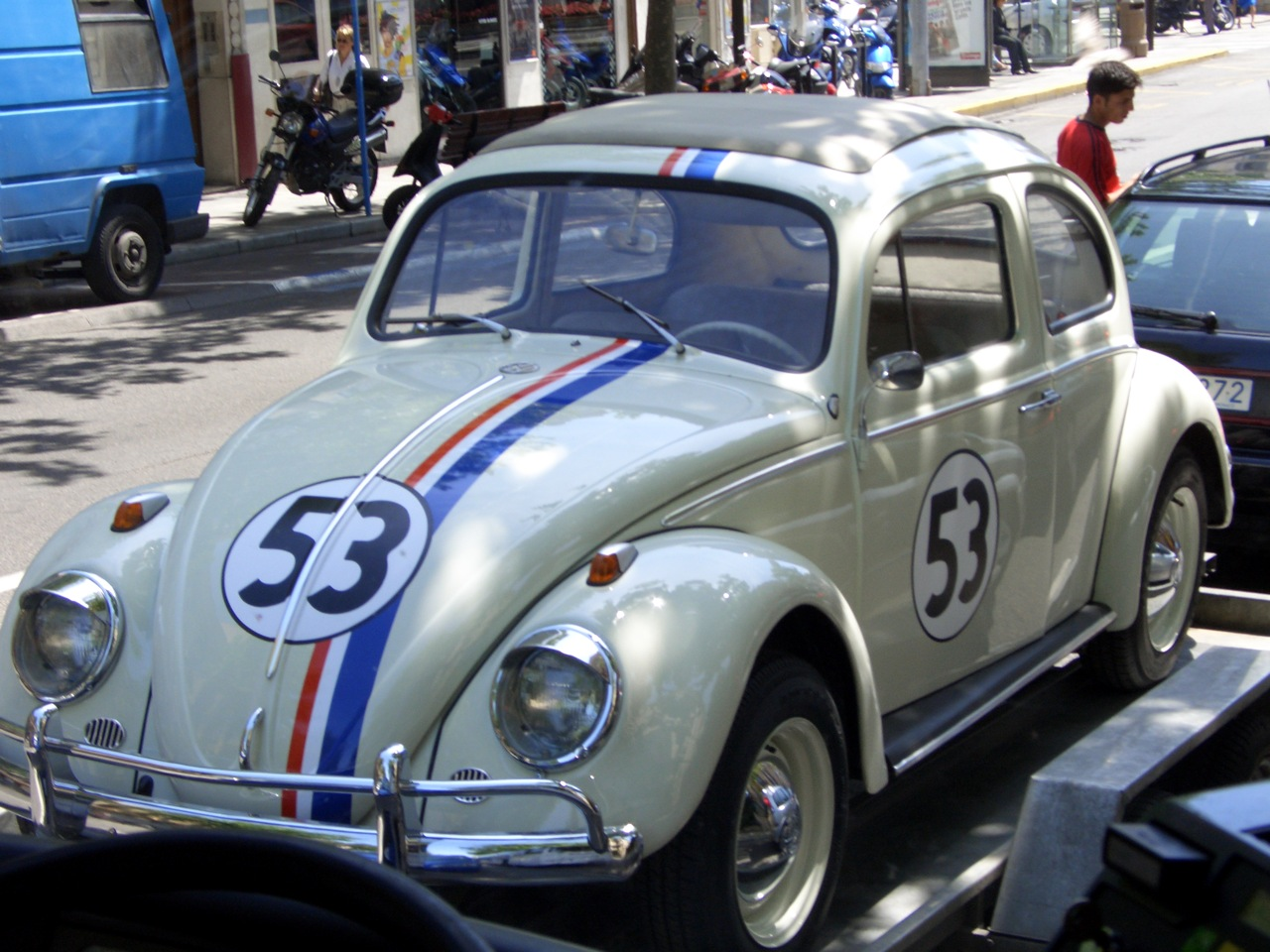 Picture from my trip to the Festival de Cannes.